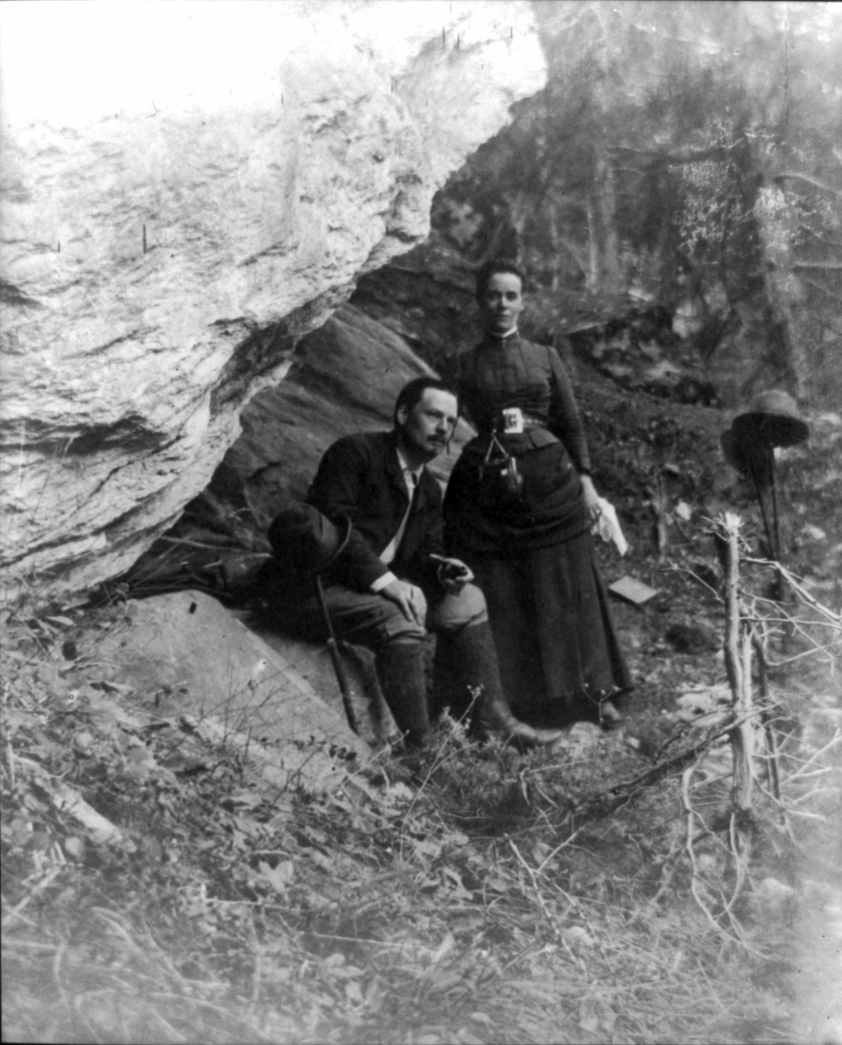 Edward and Marian MacDowell on a walking tour in Switzerland. Photograph showing Edward seated and Marian standing, under overhanging rock.